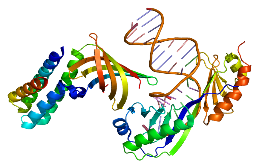 Structure of the GTF2A1 protein. Based on PyMOL rendering of PDB 1nvp.